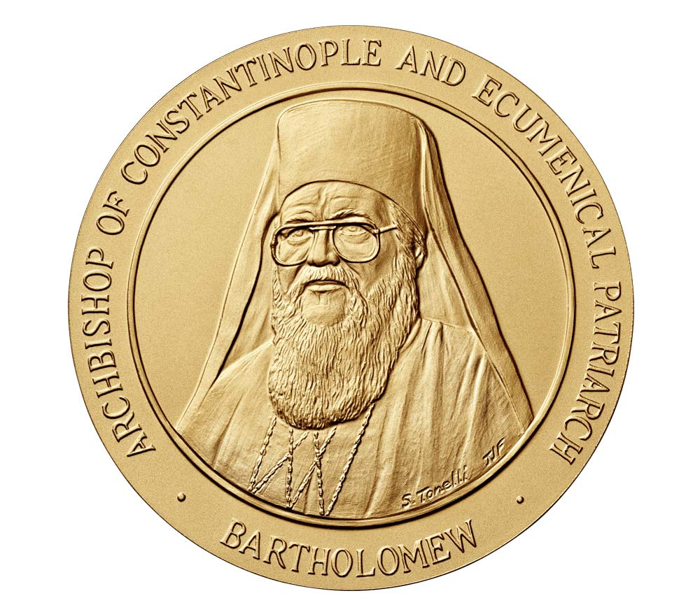 Bronze duplicate. Obverse Designer – Engraver: S. Tonelli Reverse Designer – Engraver: T. James Ferrell